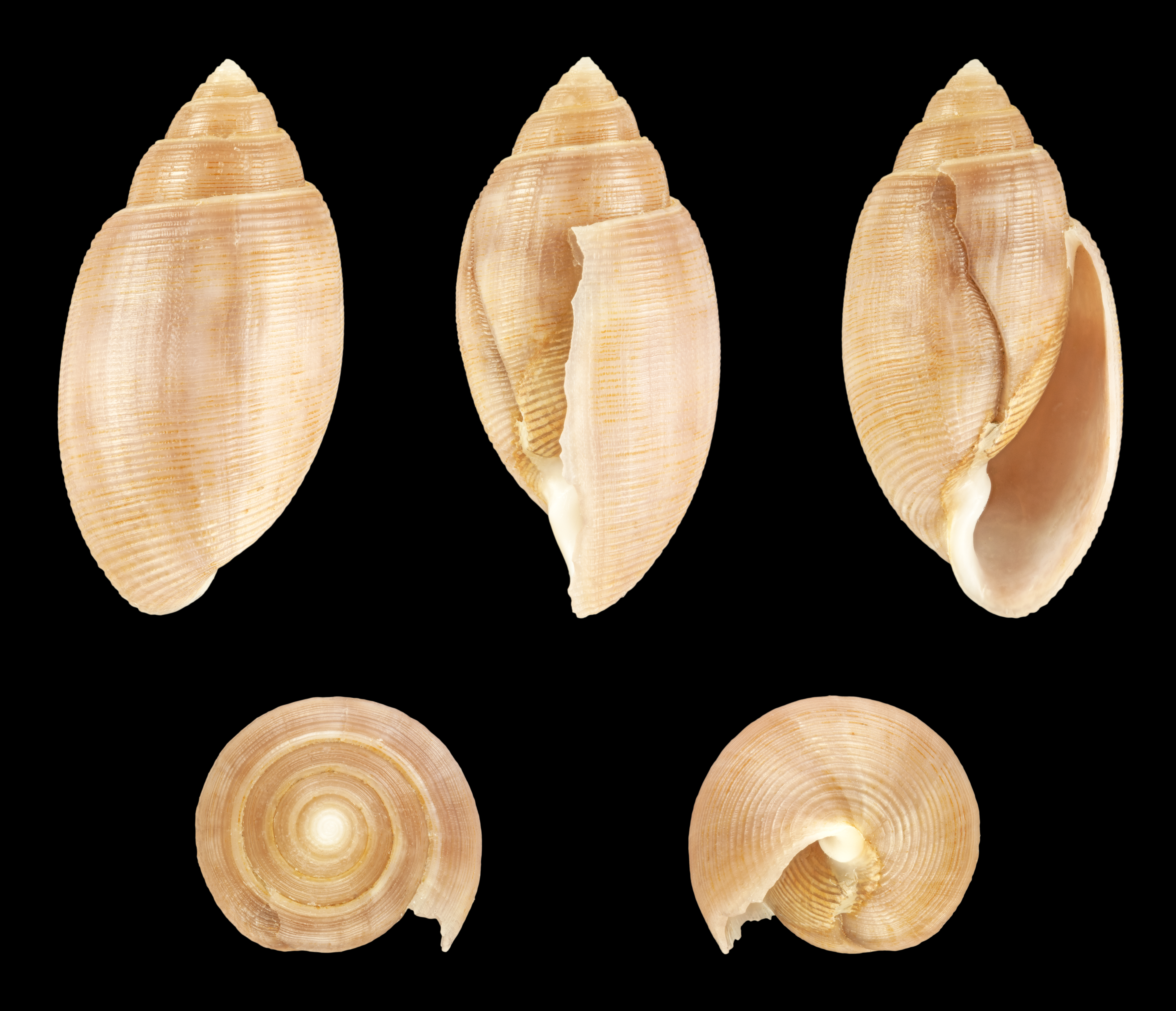 Acteon tornatilis forma unicolor Scacci, 1836; Unicoloured Lathe Acteon; Length 2,0 cm; Originating from Port Leucate, France; Shell of own collection, therefore not geocoded. Dorsal, lateral (right side), ventral, back, and front view.